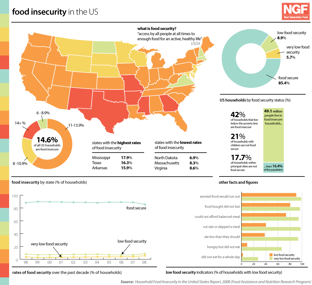 A report (2009) has shown that a record high of 15 percent of Americans are having trouble putting food on the table. This number shot up to 17 million households the government reported.